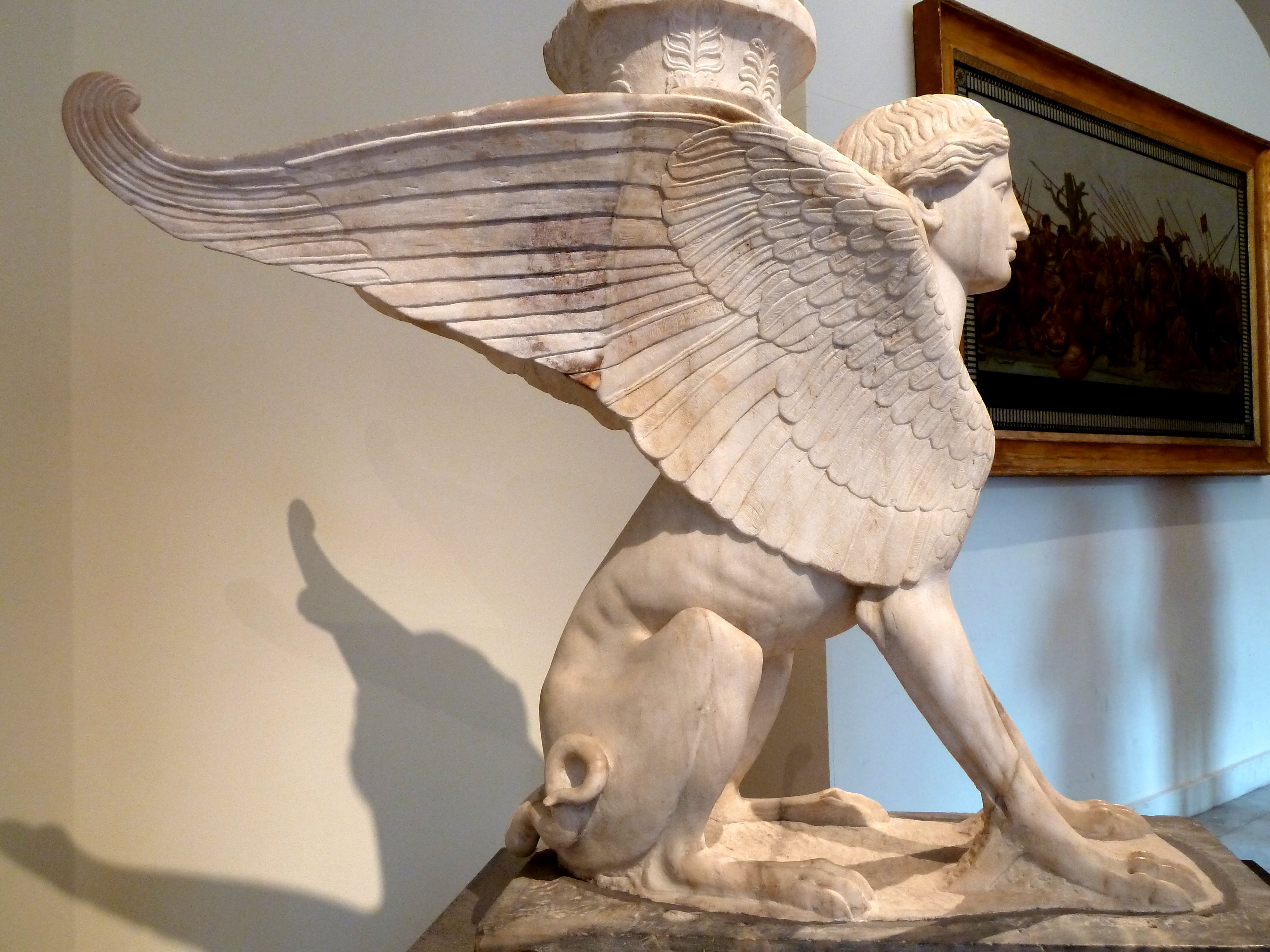 Marble sphinx table support, House of the Faun, Pompeii (VI 12,2) Second Peristyle (inv. 6869)